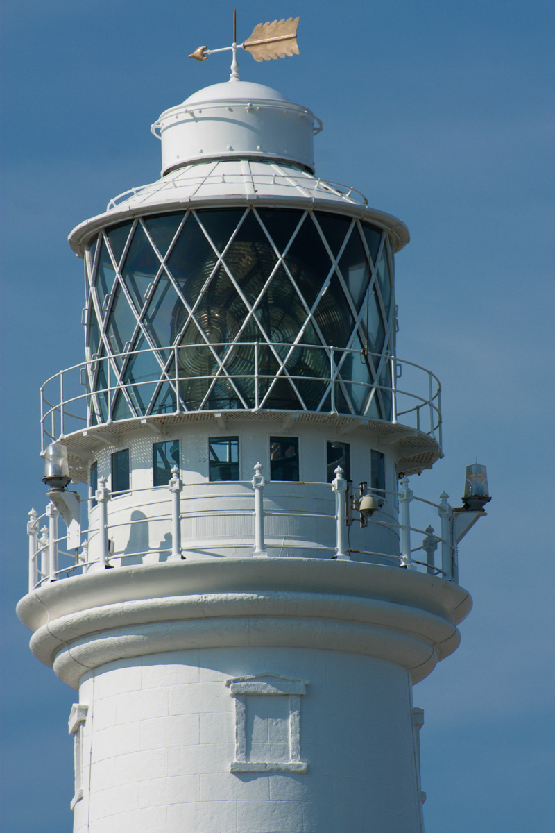 Flamborough Lighthouse, Flamborough, East Riding of Yorkshire, England.